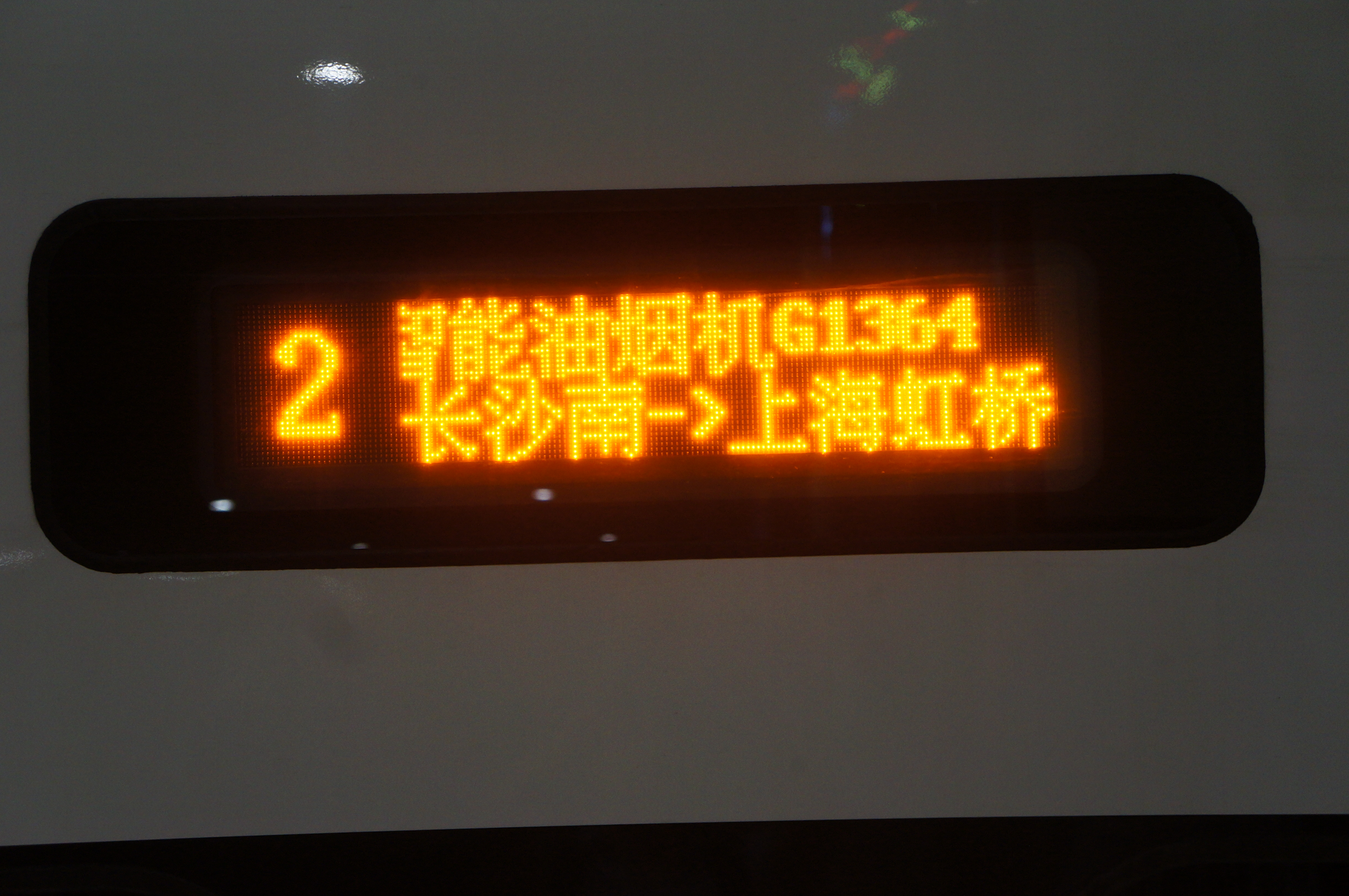 G1364 (Changshanan to Shanghai Hongqiao) infoboard in 201705